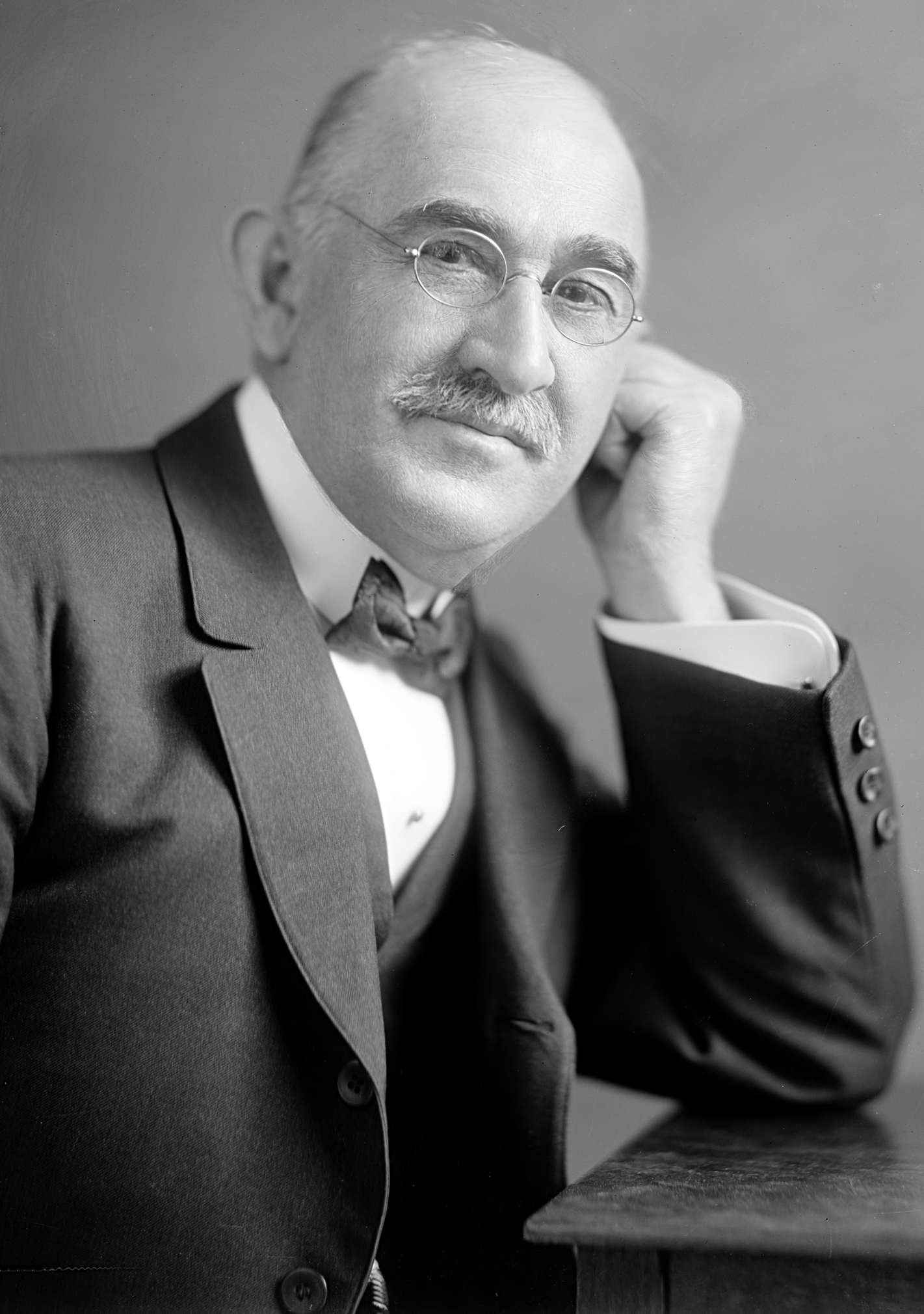 Elijah C. Hutchinson, US Representative from New Jersey